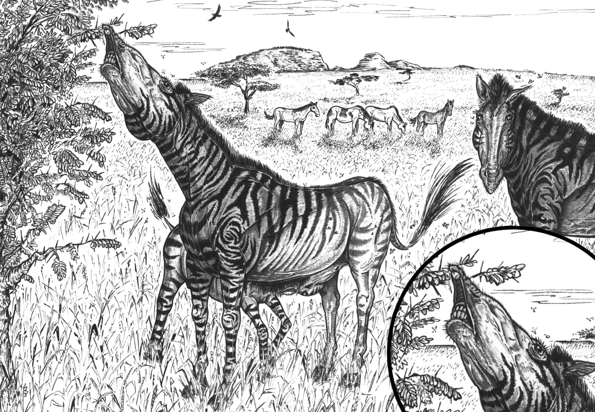 Palaeoenvironmental reconstruction of the South American Pleistocene equids. The function of the prehensile upper lip of hippidiforms during foraging is depicted in foreground (and in detail), while the grazer Equus (Amerhippus) is shown in the background.